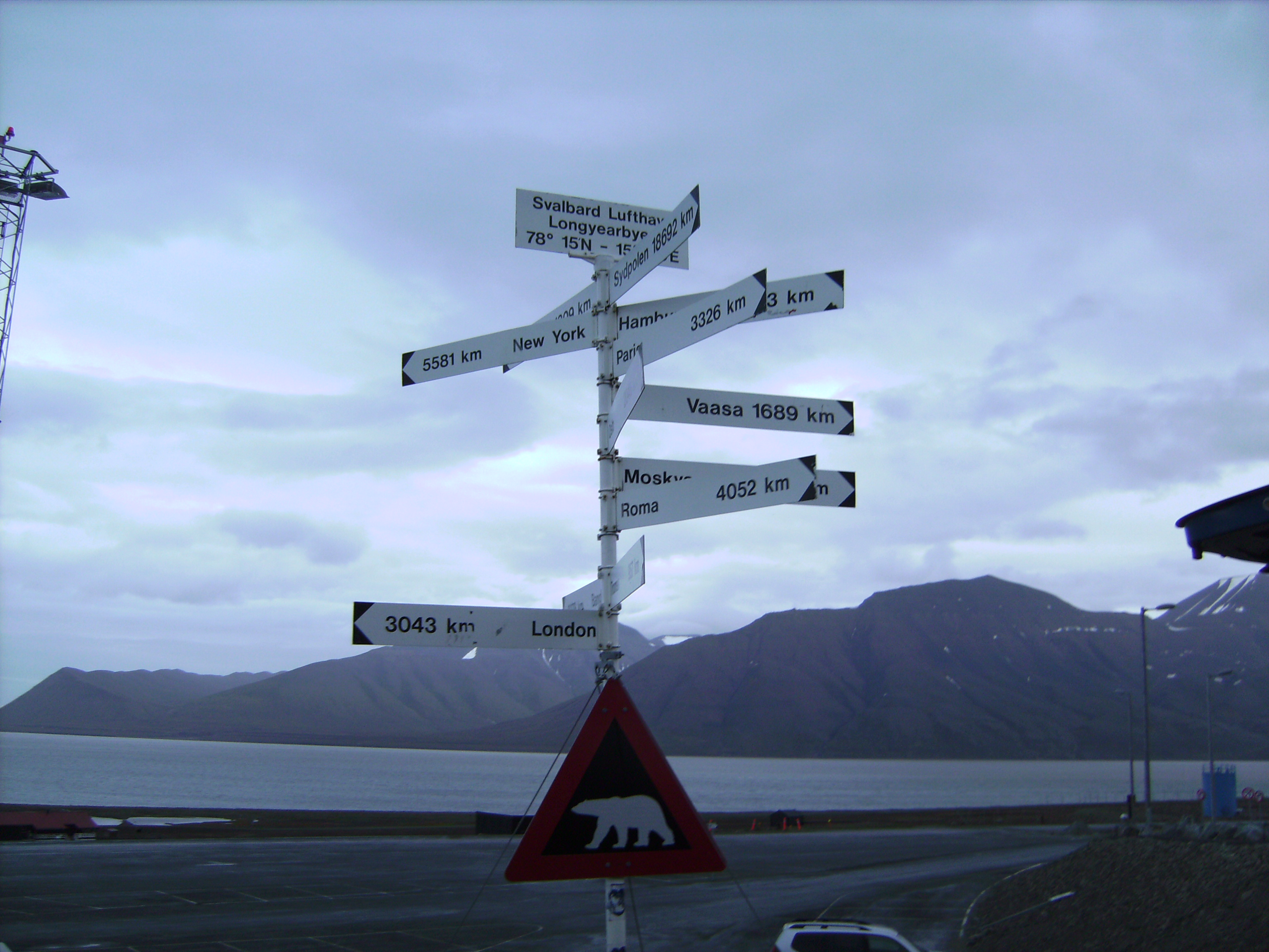 Longyearbyen airport (Lufthaven). Exit with kilometric distances